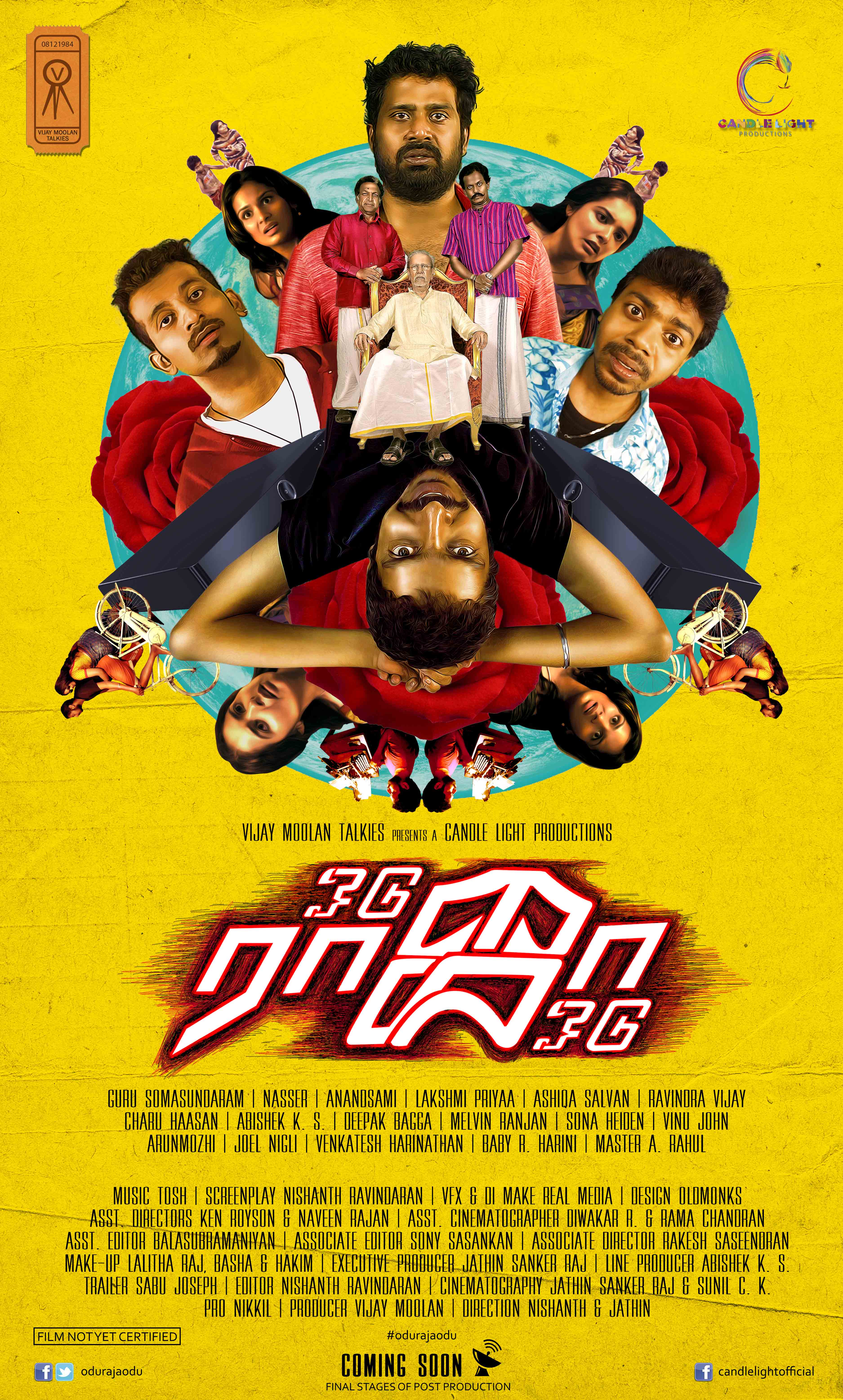 Theatrical Poster